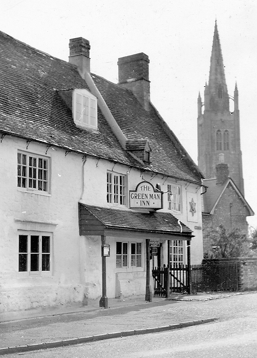 Hanslope in the 1950s. The photo was taken by my late mother, Ingeborg Kuhle, and scanned by me. The public house in this picture was turned to a private house in the 1960s. The porch and front entrance shown in this picture is no longer there.